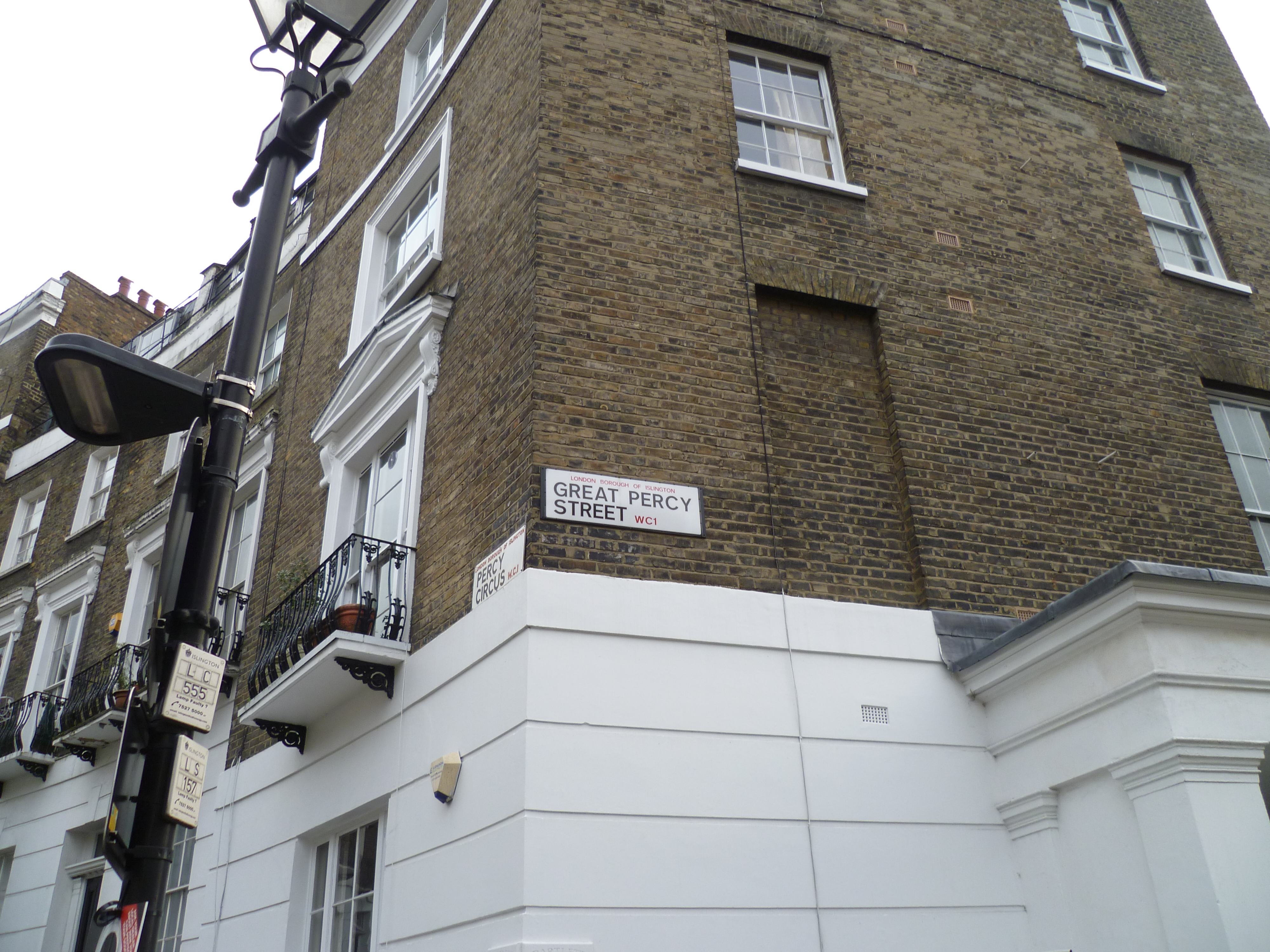 London